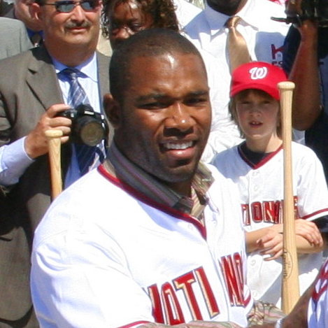 Marlon Anderson (left of center, in white jersey), Brian Schneider (center, in white jersey) and Frank Robinson (right, in black suit) at the groundbreaking ceremony for Nationals Park in May 2006.